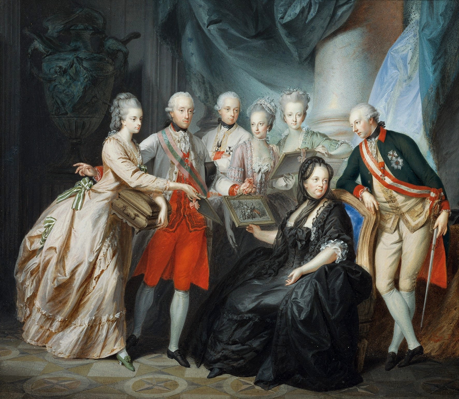 Empress Maria Theresa (1717-1780) with the family (Albert of Sachsen-Teschen and Marie Christine show the images brought back from Italy, and beyond, Maximilian, Maria Anna, Mary Elizabeth; leaning against the chair Joseph II).